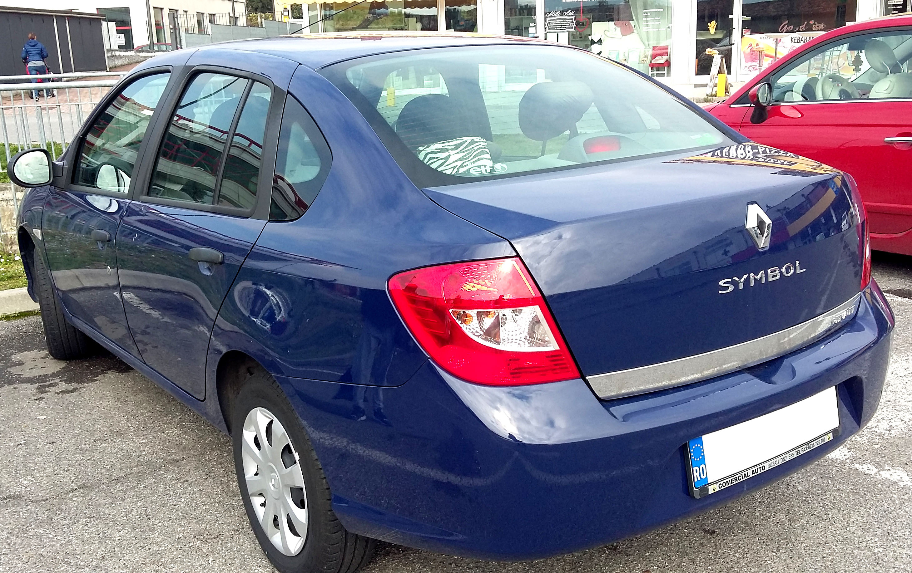 2008-present Renault Symbol, rear